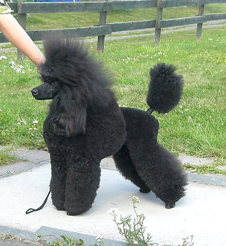 A medium sized poodle in Scandinavian clip